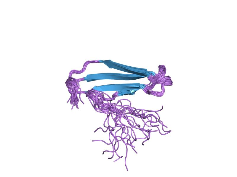 Cartoon representation of the molecular structure of protein registered with 1wj2 code.